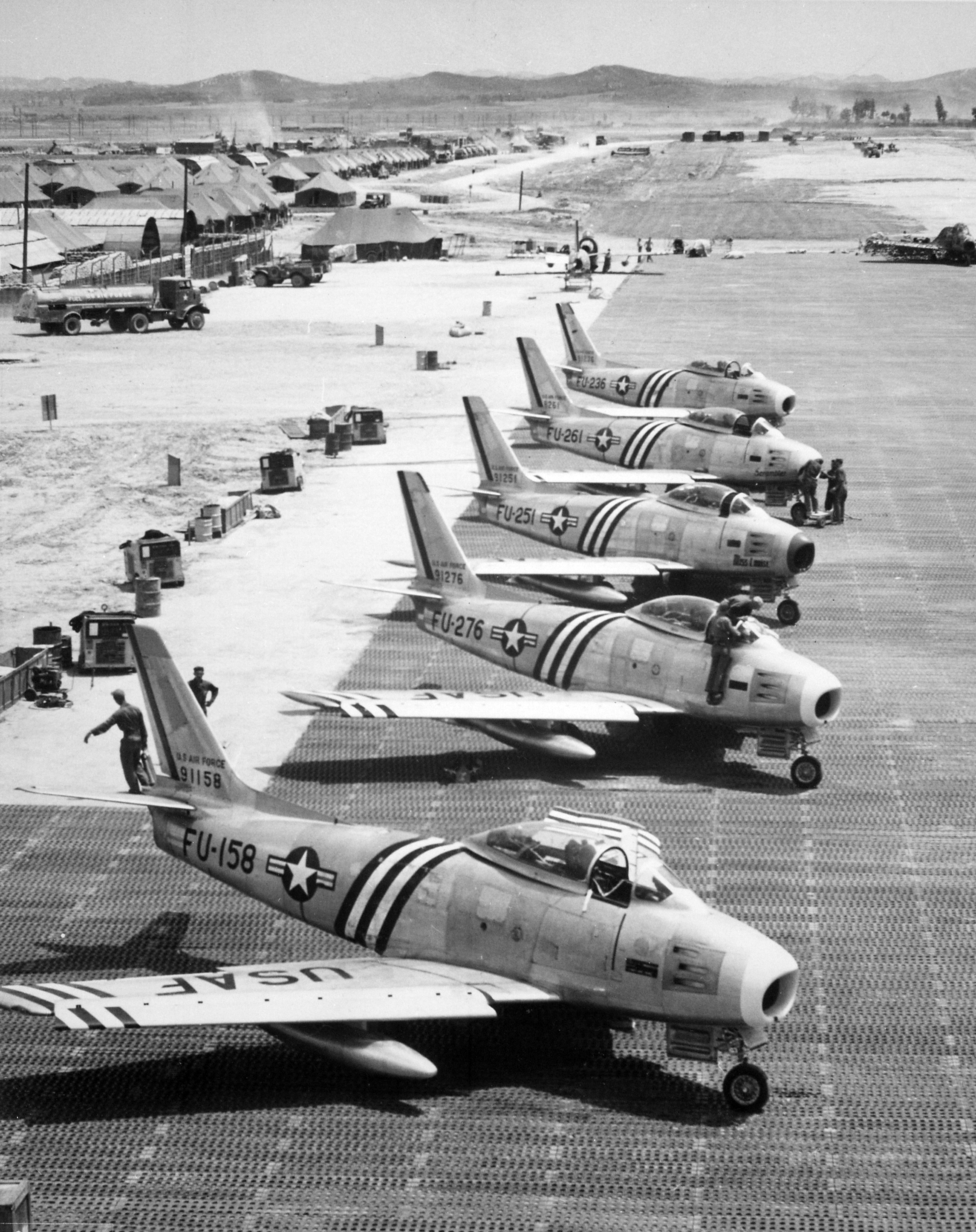 Five North American F-86A Sabre fighters of the 4th Fighter Interceptor Wing on the flight line at Suwon, South Korea, in June 1951. The F-86As were F-86A-5-NA: 49-1158 was damaged by a MiG-15 on 23 September 1951; 49-1276 of the 336th FIS was shot down by a MiG-15 on 22 June 1951; 49-1251; 49-1261; 49-1236 of the 334th FIS was shot down by a MiG-15 on 24 October 1951.